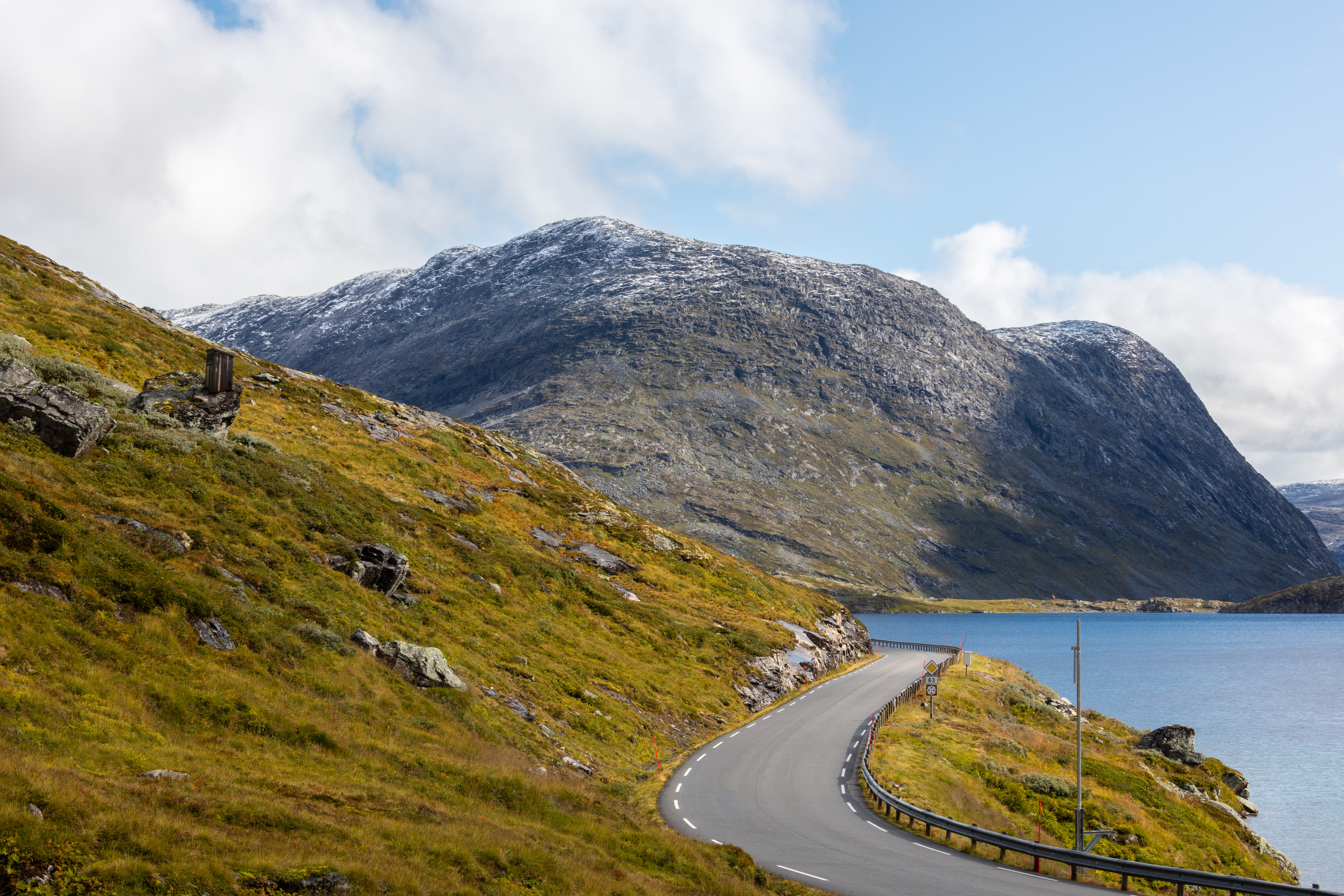 Road 63 next to Lake Djupvatnet, Geiranger, Norway